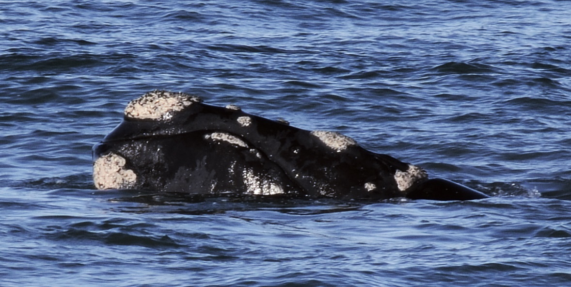 Whale Franca-Morro das Pedras-Florianópolis SC